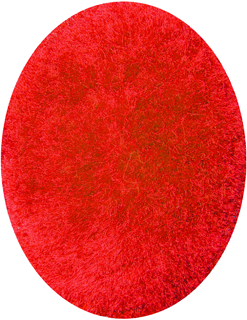 Nappina Rossa (Red unit badge) Italian Army Alpini - denotes 2nd battalion in a regiment